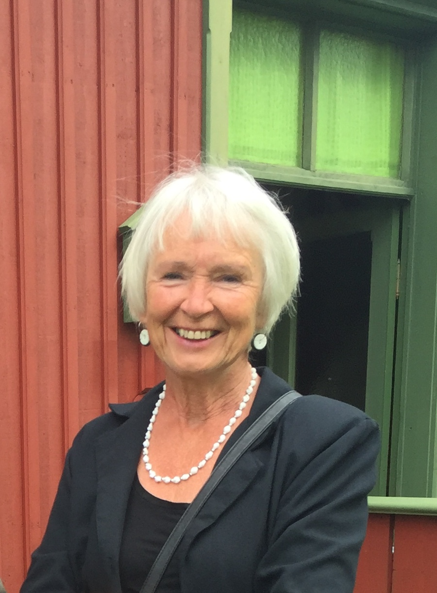 Portrait of the Norwegian author Margaret Skjelbred. Location: Olav and Emma Duun's house, Holmestrand during "Duunstevnet" 2015.